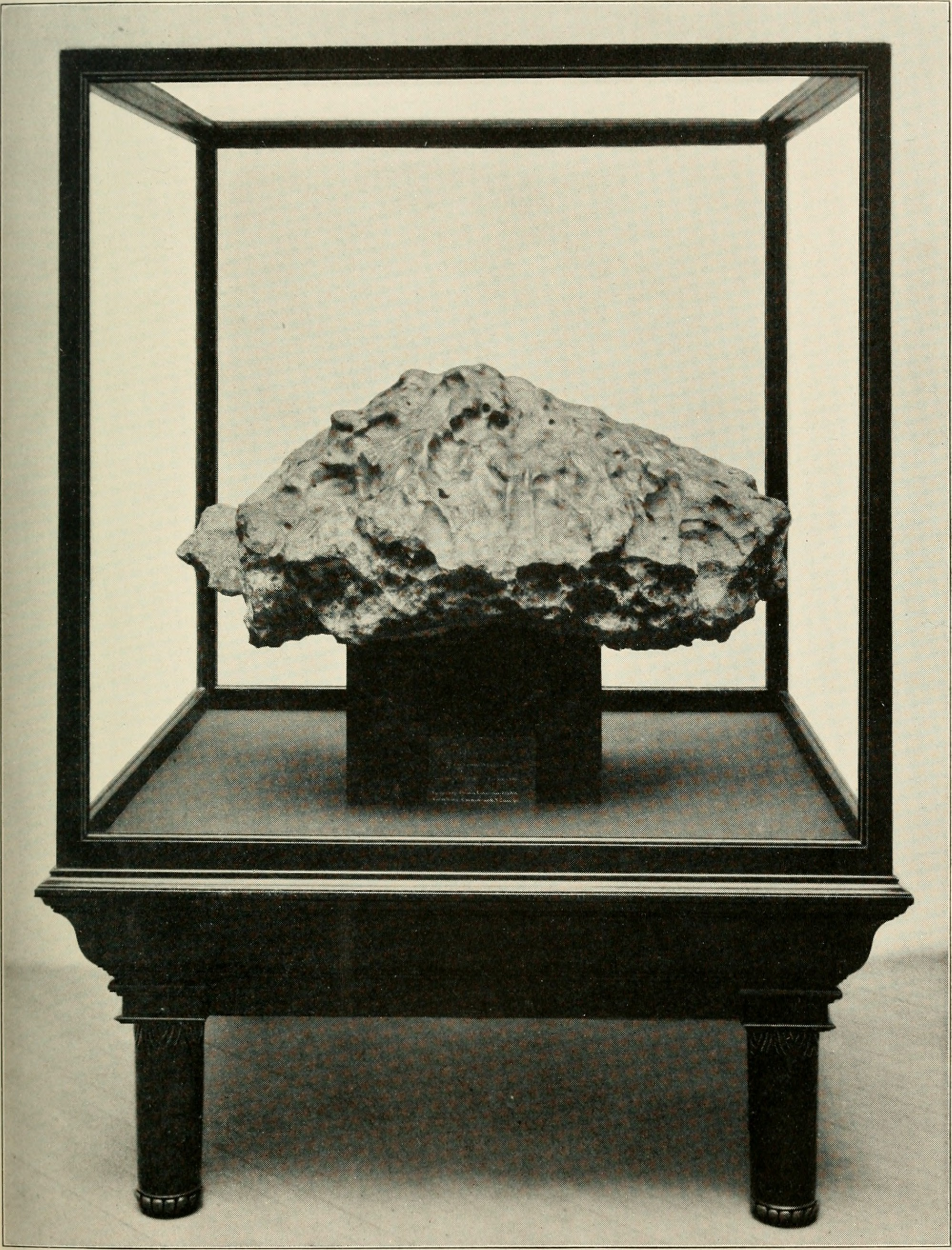 Quinn Canyon meteorite main mass, 1485 kg. This meteorite is also known with the name Tonopah. Title: Annual report of the Director to the Board of Trustees for the year ... Identifier: annualreportofdi34fiel Year: 1907-1943 (1900s) Authors: Field Museum of Natural History Subjects: Field Museum of Natural History; Natural history Publisher: Chicago, U. S. A. : Field Museum of Natural History Text Appearing Before Image: FIELD MUSEUM OF NATURAL HISTORY. REPORTS, PLATE XLVII. Text Appearing After Image: Tonopah (Nevada) Meteorite. Weight 3,275 lbs.